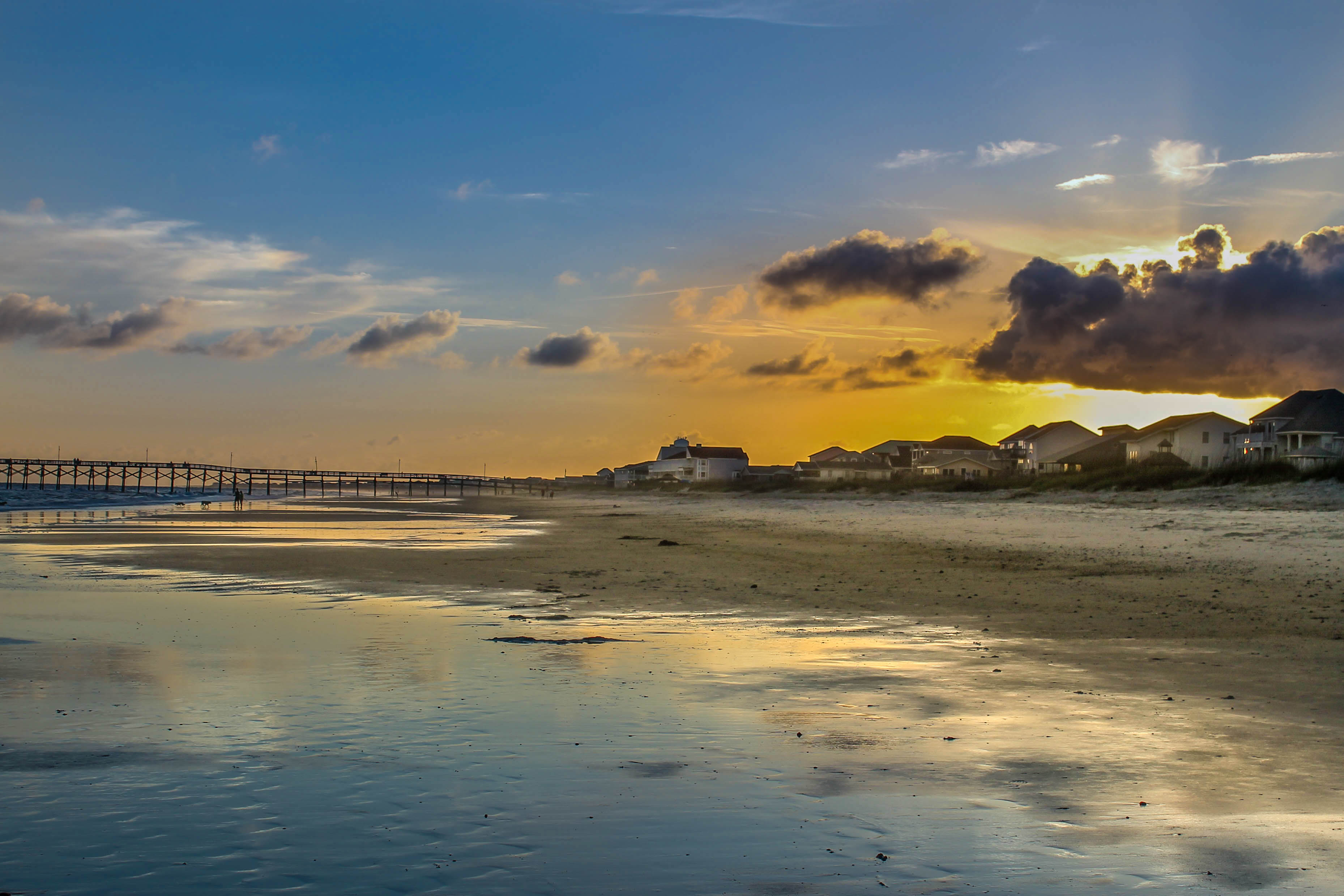 Looking west at the Ocean Crest Fishing Pier